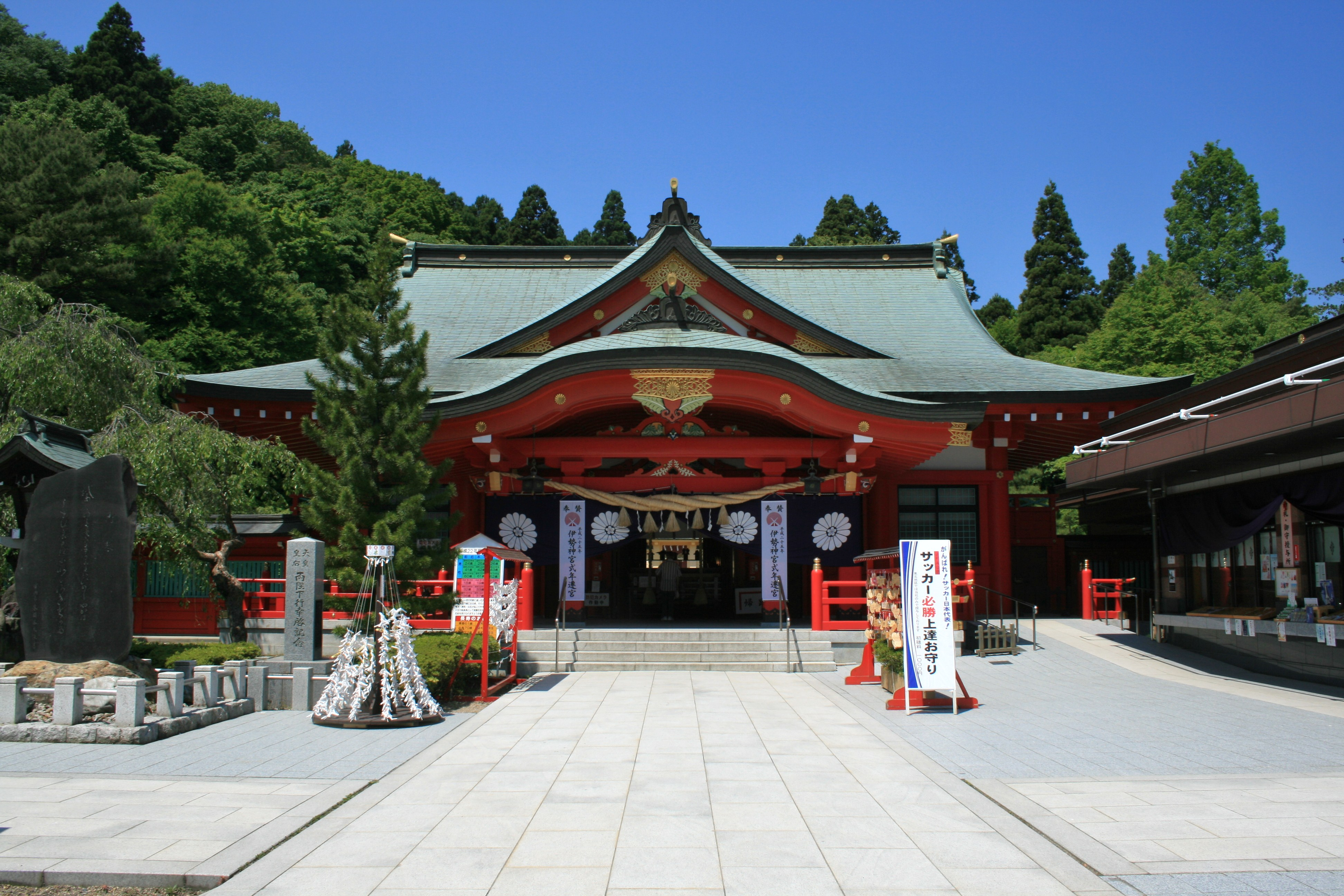 Miyagi Prefecture Gokoku Shrine (Miyagi-ken Gokoku-jinja) Hall of Worship (Haiden). It is in Tenshudai, Kawauchi, Aoba Ward (Aoba-ku), Miyagi Prefecture (Miyagi-ken), Japan.